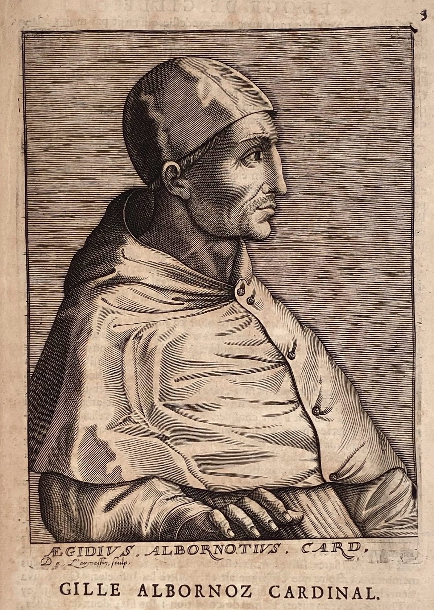 Half-length portrait of Gil Álvarez Carrillo de Albornoz, cardinal, facing to the right. Engraved by Nicolas de Larmessin. Isaac Bullart. Académie Des Sciences Et Des Arts. - Amsterdam: Elzevier, 1682.